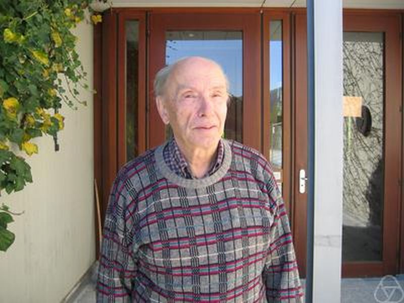 Wolfgang M. Schmidt, Oberwolfach 2007